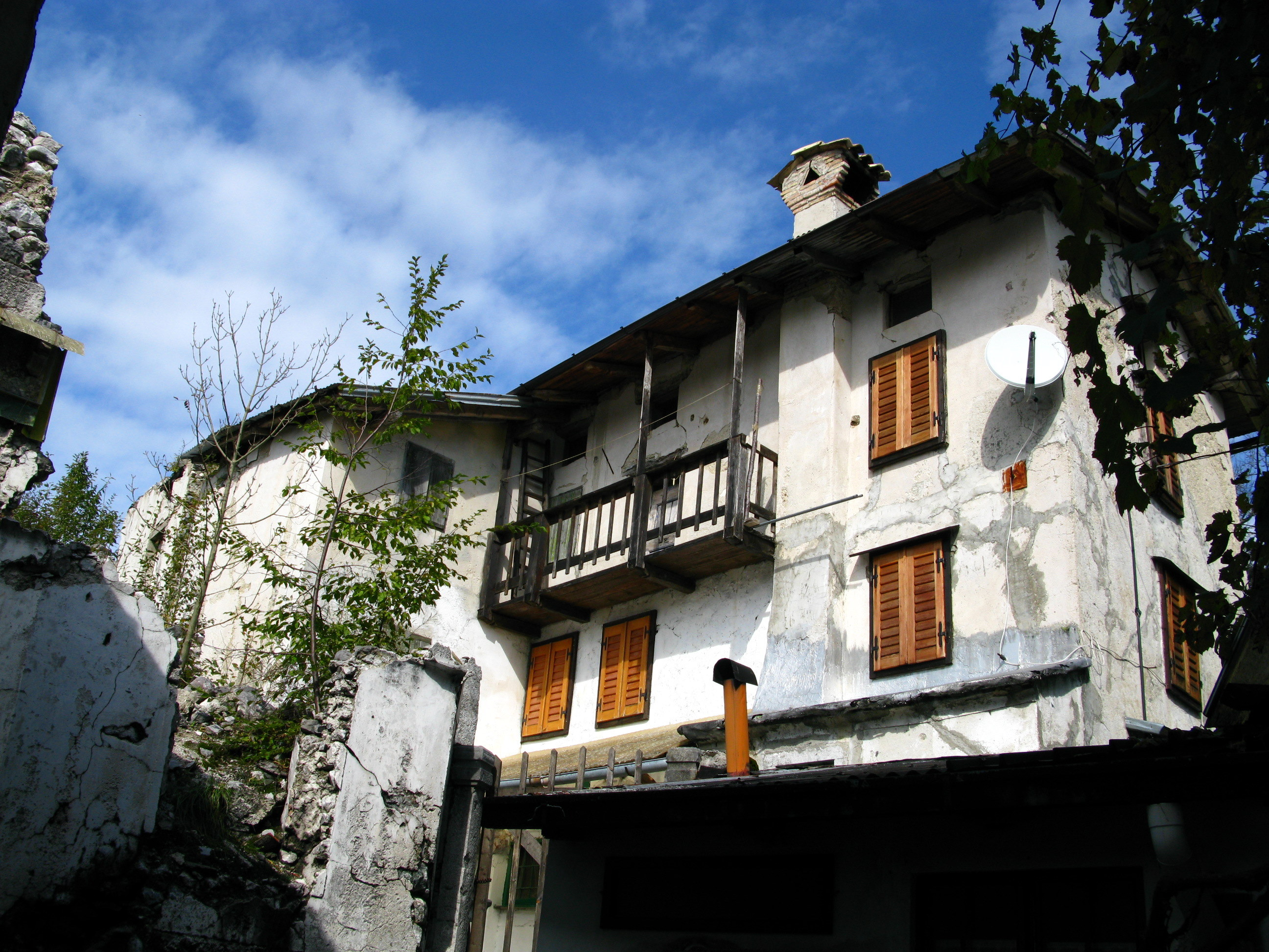 Old friulian farmhouses decayed or used as second home houses in Moggessa di Qua, a nearly abandoned village near Moggio Udinese / Friuli-Venezia Giulia / Italy / EU.